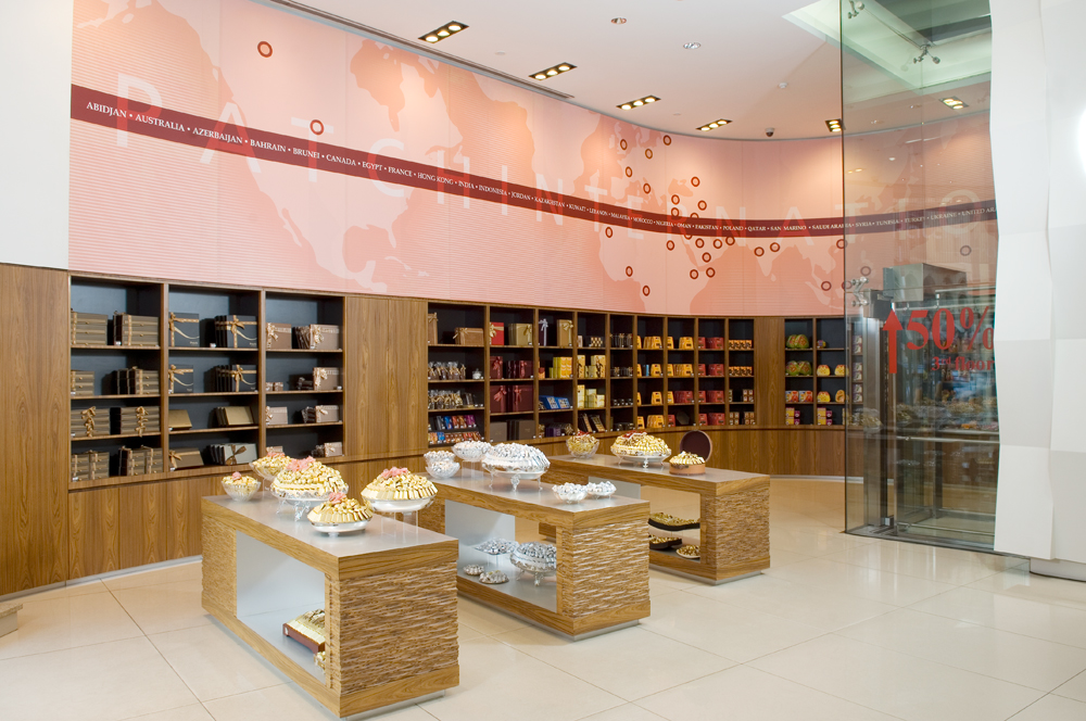 Inside Patchi's Down Town boutique, Beirut, Lebanon